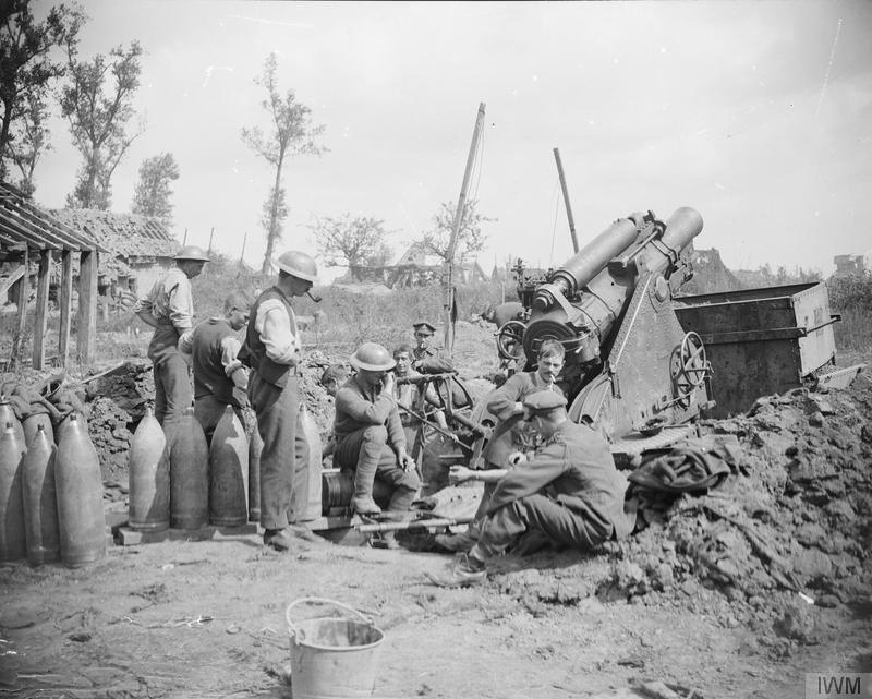 The Battle of Passchendaele, July-november 1917 A 9.2-inch howitzer and the gunners of the Royal Garrison Artillery at St. Jean, 19 August 1917.